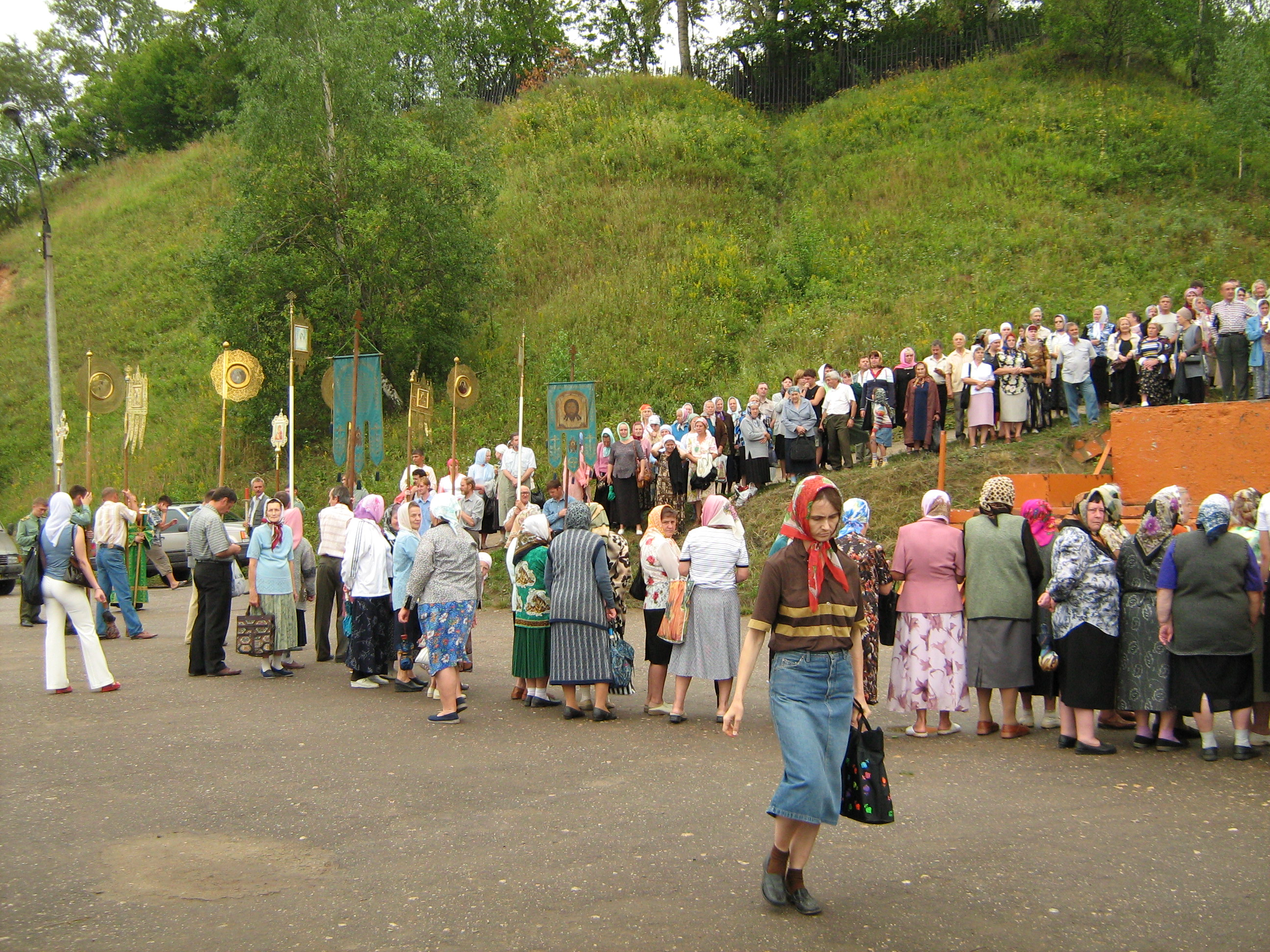 A procession in Kstovo on the occasion of the Holy Relics of Venerable Macarius passing this city on its way to Makariev Monastery, August 4, 2007